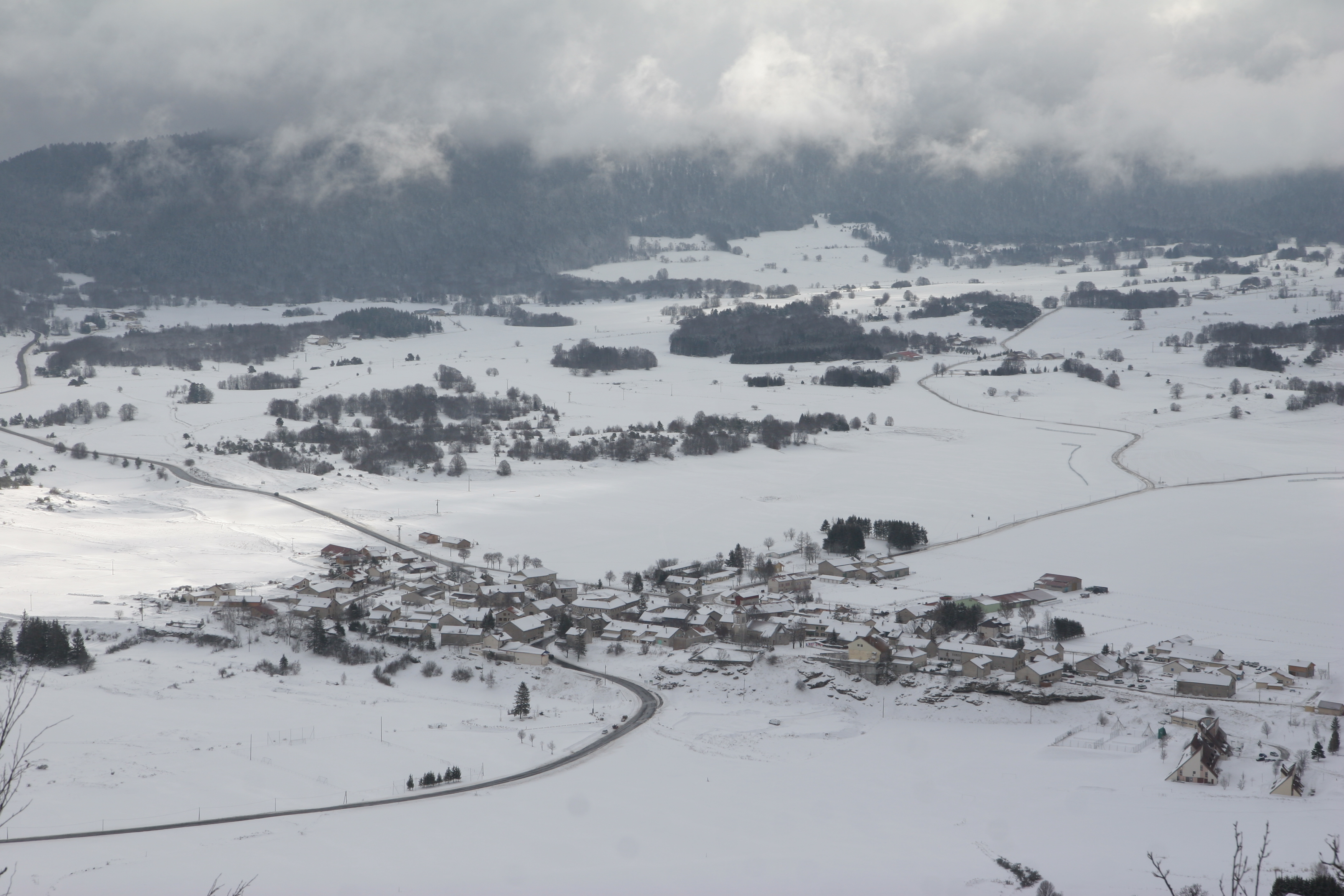 Vassieux-en-Vercors under the snow, seen from the slopes of the La chaux pass, near the Mémorial de la Résistance